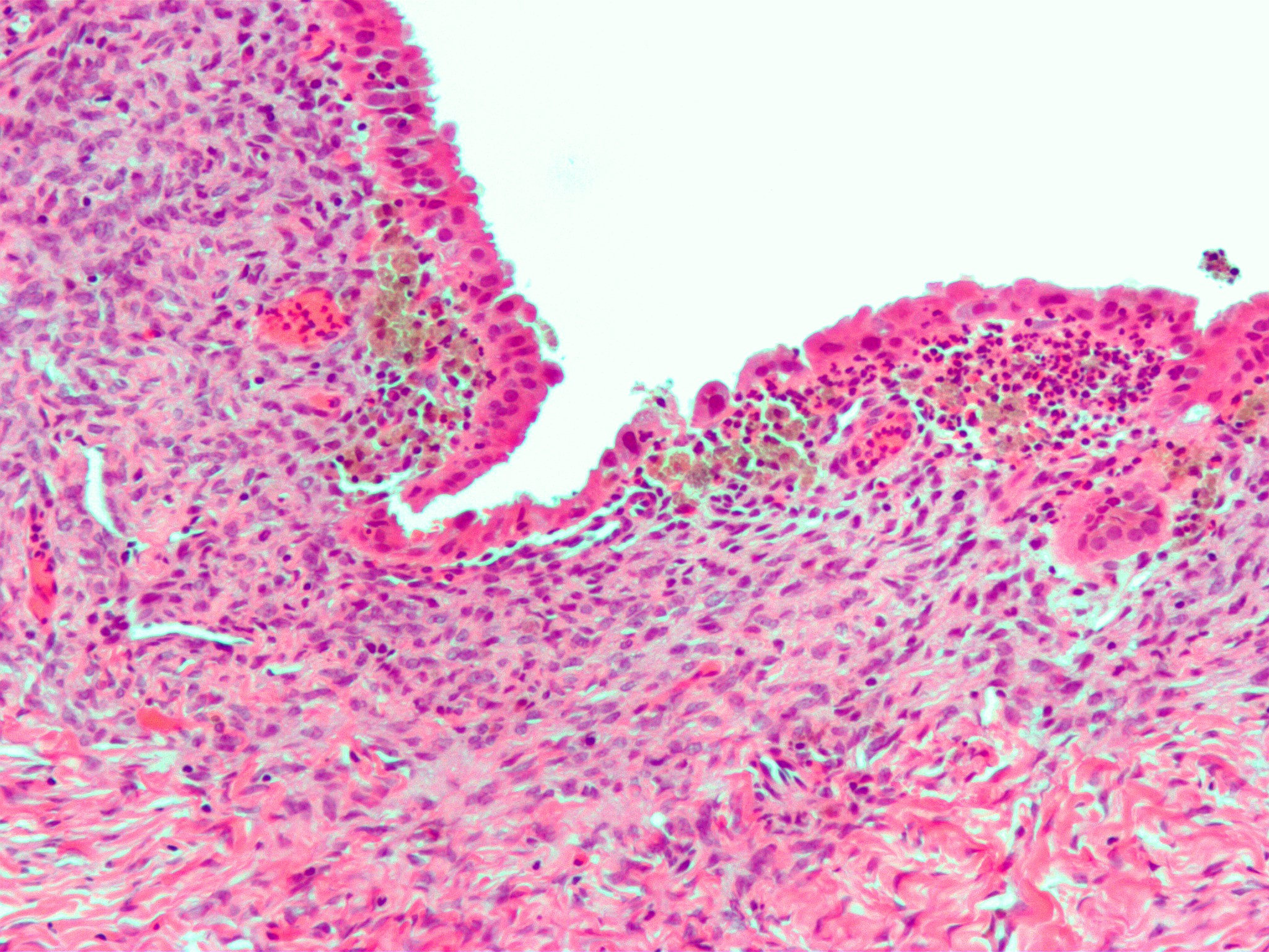 Micrograph of an endometrioma. H&E stain. To histologically diagnose endometriosis one requires two of the three following criteria: endometrial glands - hyperchromatic (dark blue) epithelium. endometrial stroma - hyperchromatic spindle-shaped cells below the epithelium. hemosiderin-laden macrophages - brown pigmented area. All three of the above criteria are seen in the micrograph. Related images Endometrioma low magnification.